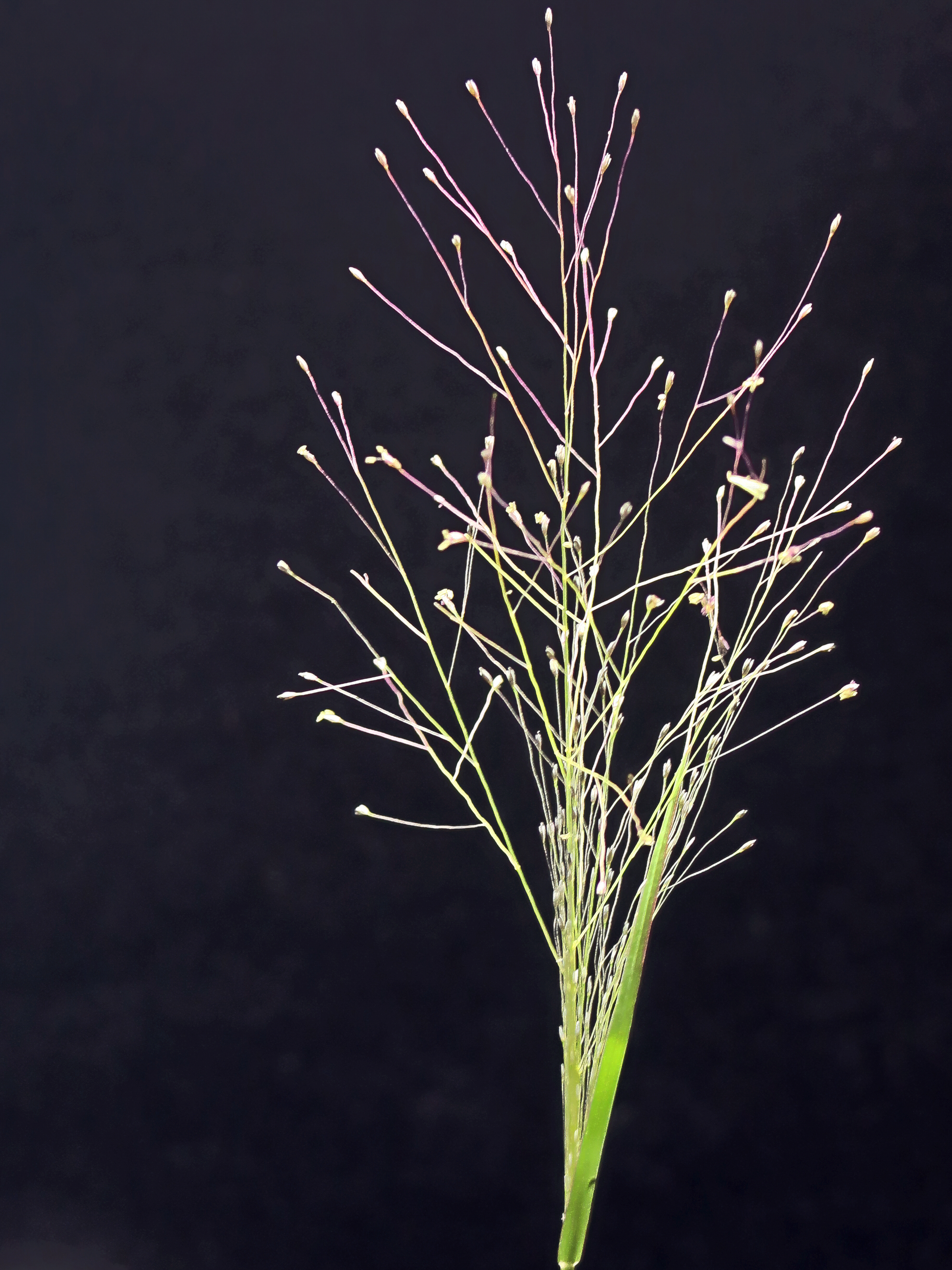 Muhlenbergia asperifolia—Scratchgrass. A rhizomatous grass found in much of western North America, including Canada and northern Mexico. The grass is also found in southern South America. The grass may have potential of a lawn replacement although studies are lacking. The photo shows the spreading, delicate inflorescence. The plant the provided the stem grows at Regional Parks Botanic Garden loocated in Tilden Regional Park near Berkeley, CA.